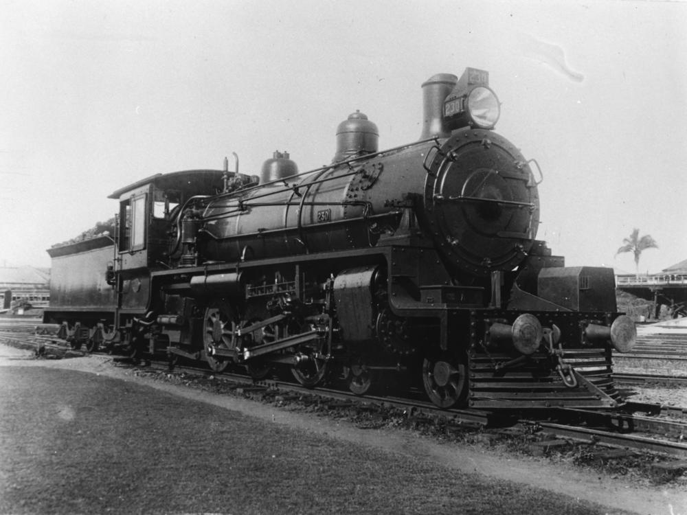 Steam locomotive known as the Pacific built from 1926 - 1950 The B18¼ - 230 locomotives were famous for mail train work. A total of eighty-three were put into service. The locomotive 230 was built in Ipswich in 1935. (Description supplied with photograph).